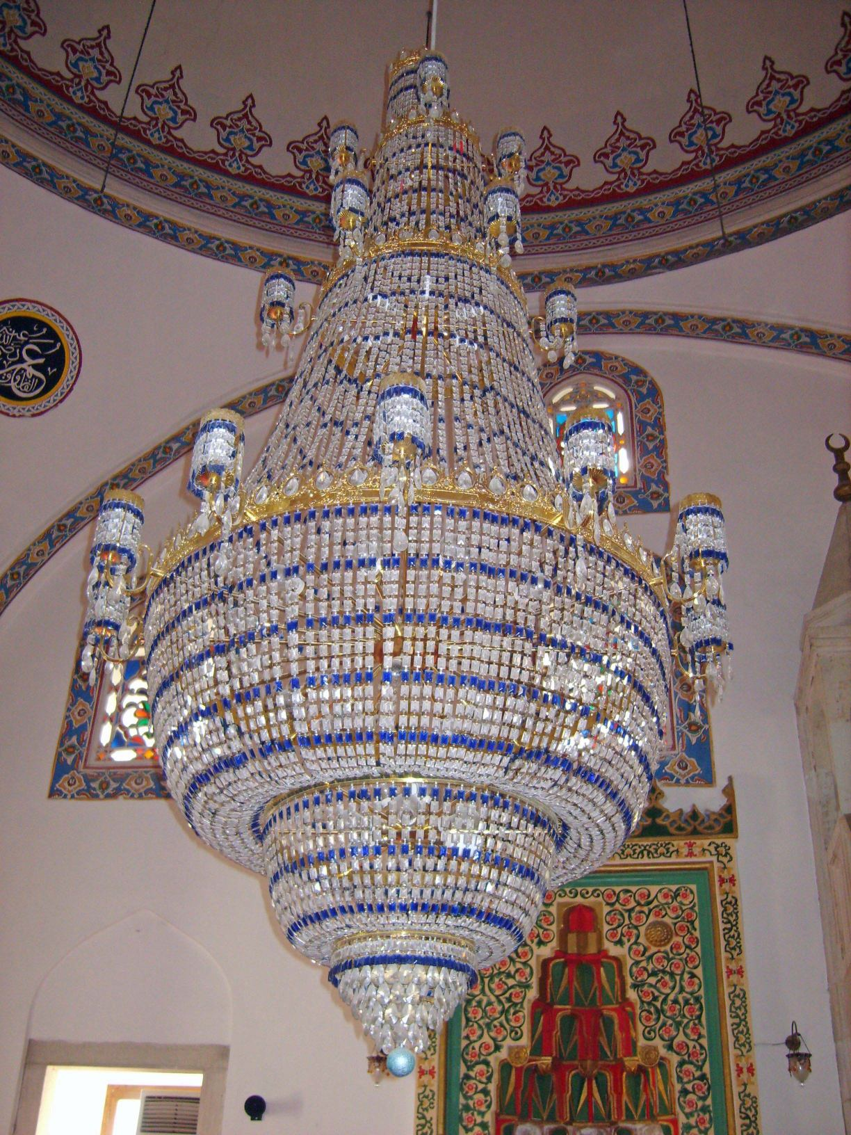 Gülbahar Hatun Mosque chandelier